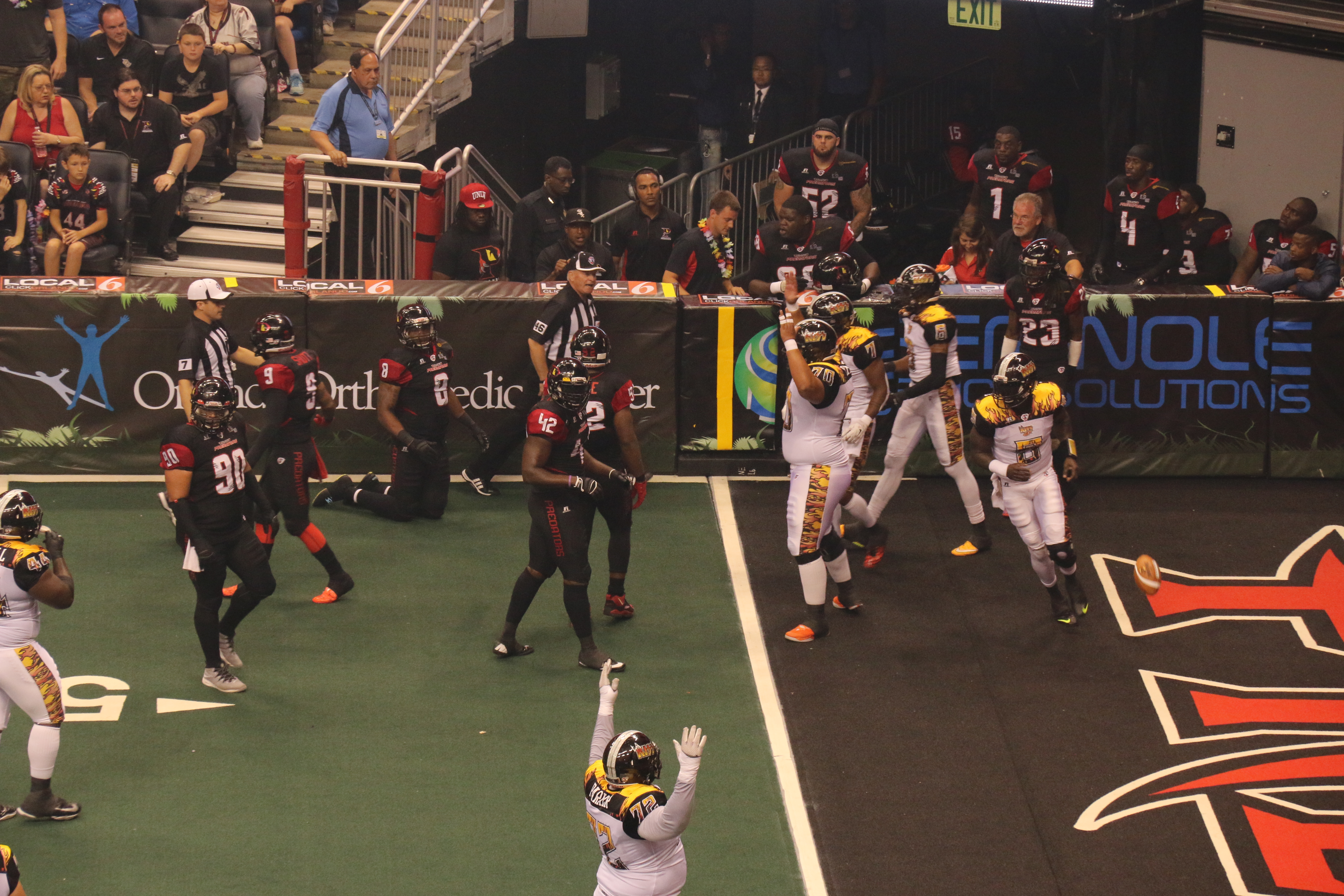 ORLANDO, Fla. – The Headquarters and Headquarters Company, 143d Sustainment Command (Expeditionary) Color Guard presented our nation’s colors to more than 11,000 screaming fans who waited to see the Orlando Predator take on the Los Angeles Kiss at the Amway Center here, Saturday, April 18, 2015. The Orlando Predators are a professional arena football team based in Orlando, Florida. The team is part of the South Division of the American Conference of the Arena Football League. “The 143d color guard did an outstanding job as usual,” said Mr. Adrian Robles, the community relations director for the Predators. "We always look forward to seeing them perform", he further added. Photos by Chief Warrant Officer 3 Desiree Felton